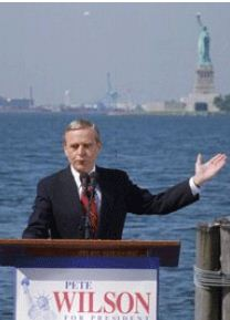 Governor Pete Wilson announces his candidacy for President of the United States in 1995